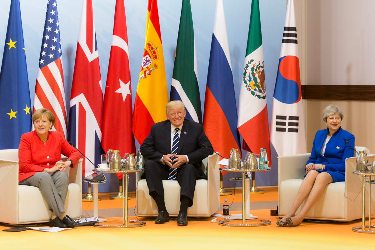 Chancellor Angela Merkel, President Donald J. Trump, and Prime Minister Theresa May | July 7, 2017 (Official White House Photo by Shealah Craighead)